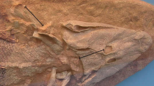 Relative lenght of fins vs skull lenght in Acanthostega